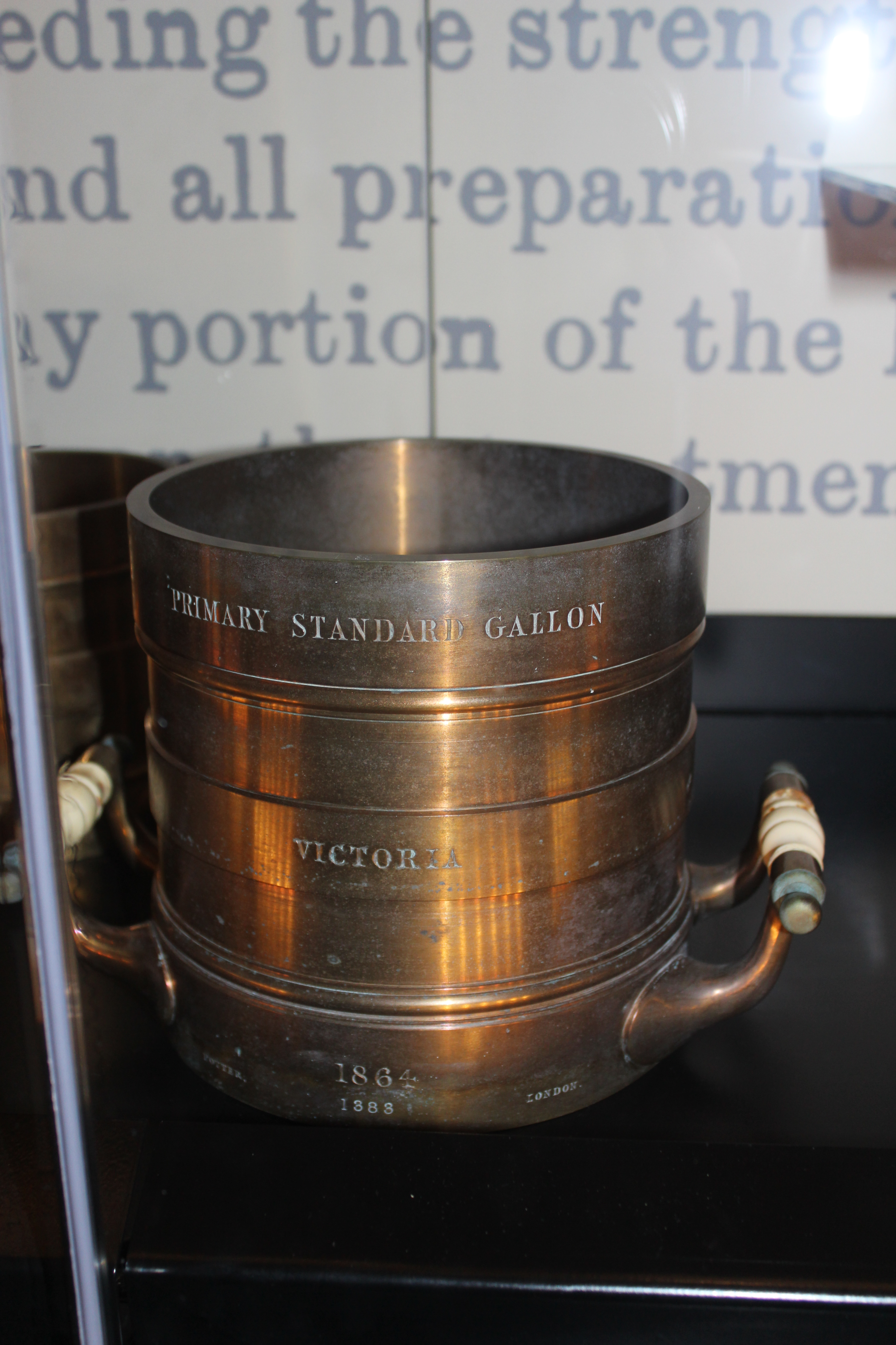 Gallon standards used by customs and excise in the colony of Victoria. It is currently on display at the Immigration Museum, Melbourne, Australia. The museum occupies to old Customs House where these measures were originally in use. Its size can be gauged from the credit card in the foreground